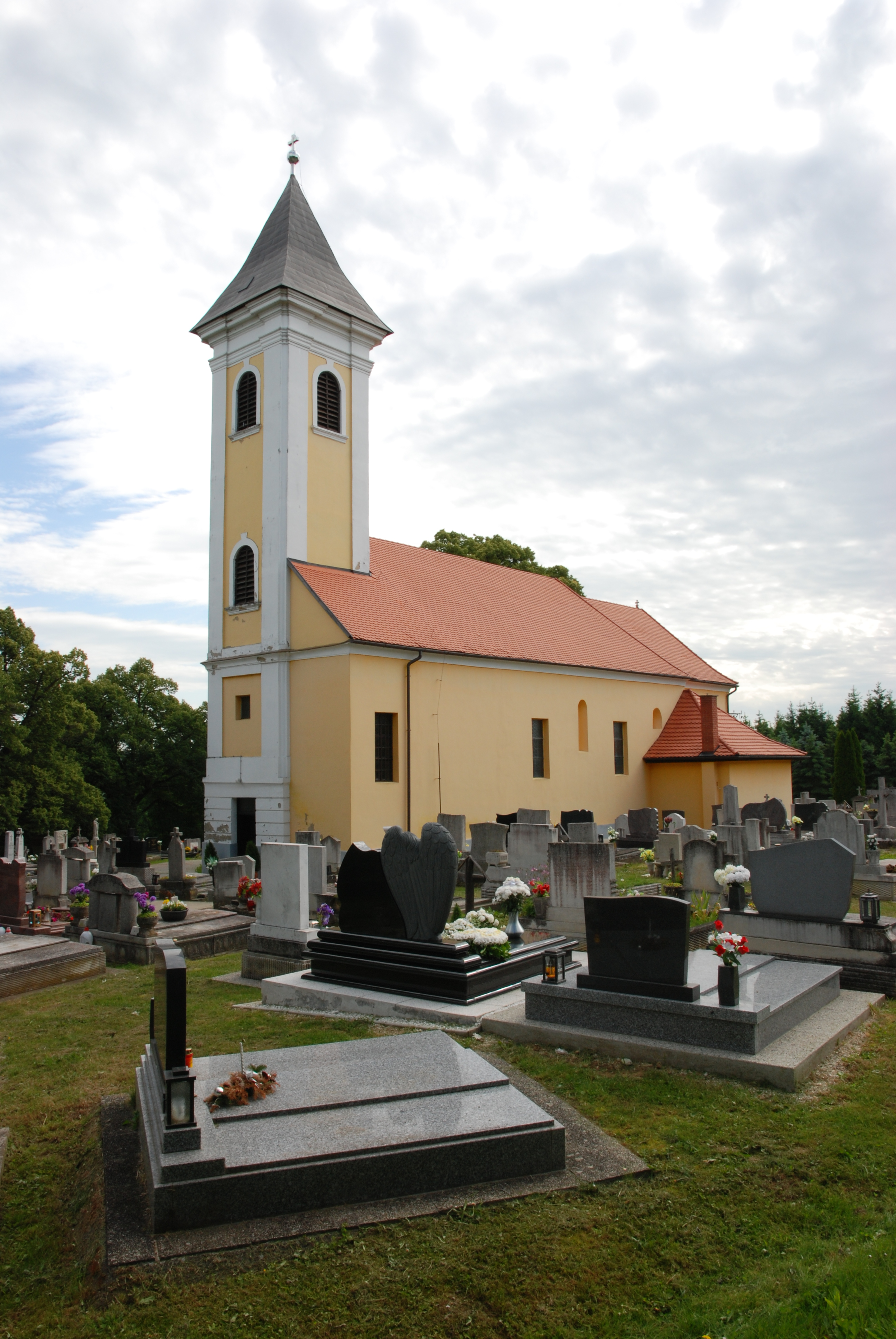 R.C. Church in Rábakethely, Szentgotthárd.